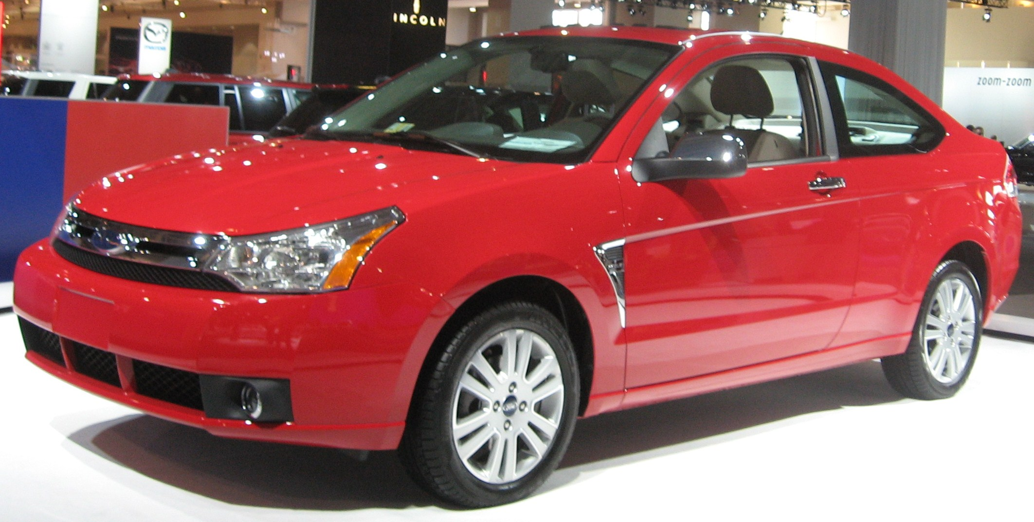 2008 Ford Focus photographed at the 2008 Washington DC Auto Show.